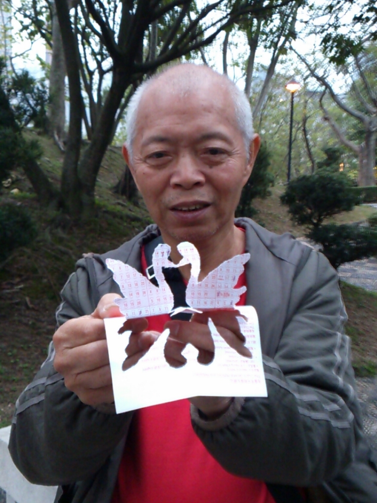 Uncle Man with his piece of art